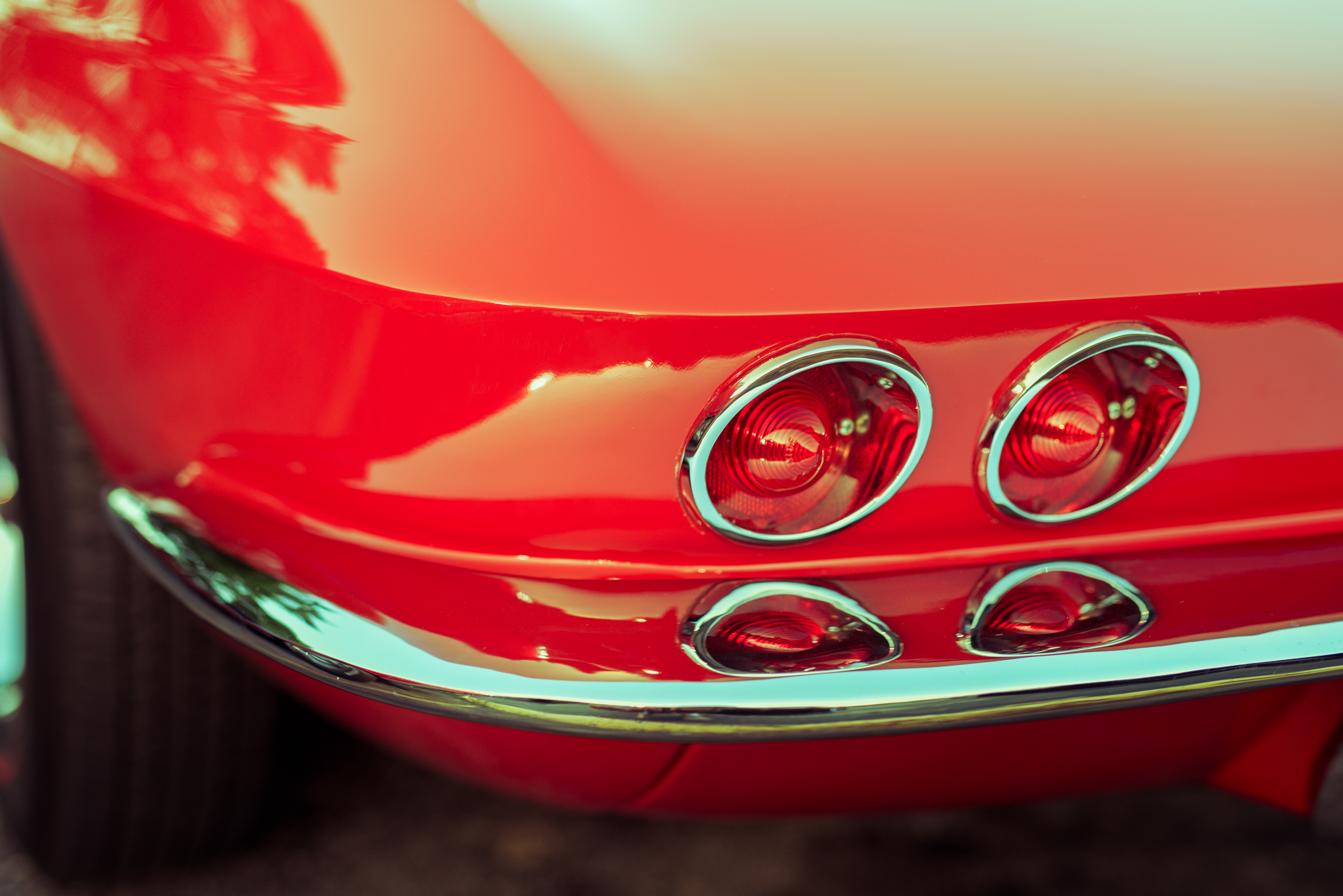 Corvette String Ray tail lights.